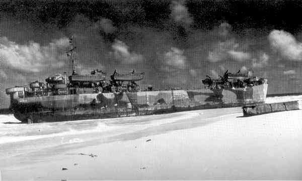 Tank landing ship USS LST-563 beached on Clipperton Island, 22 December 1944. US Navy photo from the collections of the US Naval Historical Center